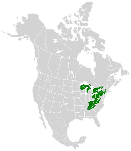 A range map showing distribution of the West Virginia White, (Pieris virginiensis).